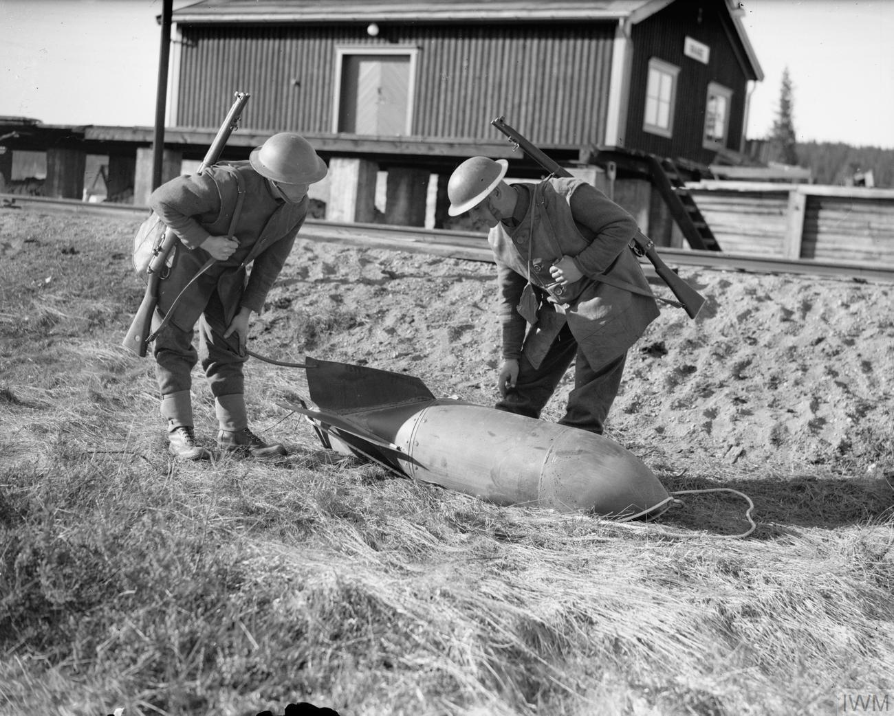 Troops examine an unexploded German bomb at the railway station at Grong, near Namsos, April 1940.